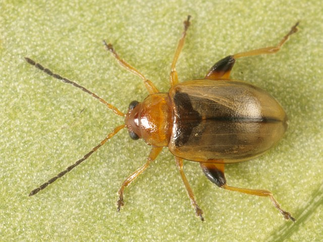 Aphthona lutescens Location: The Netherlands - Zuilichem - Breemwaard